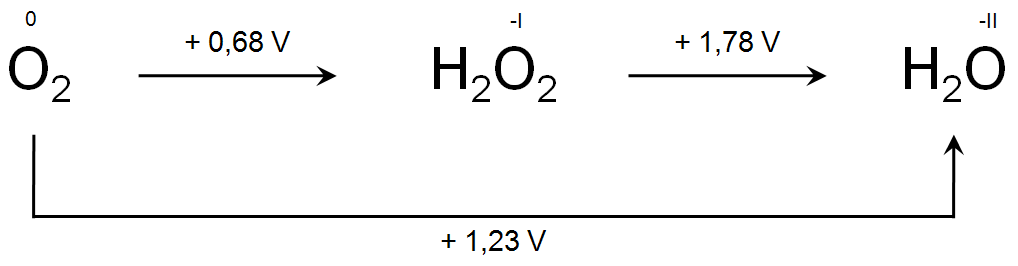 Latimer diagram oxygen